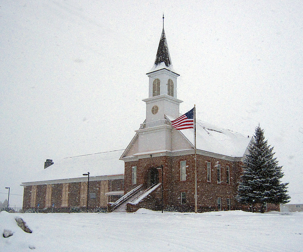 The Loa church is the stake house for the area